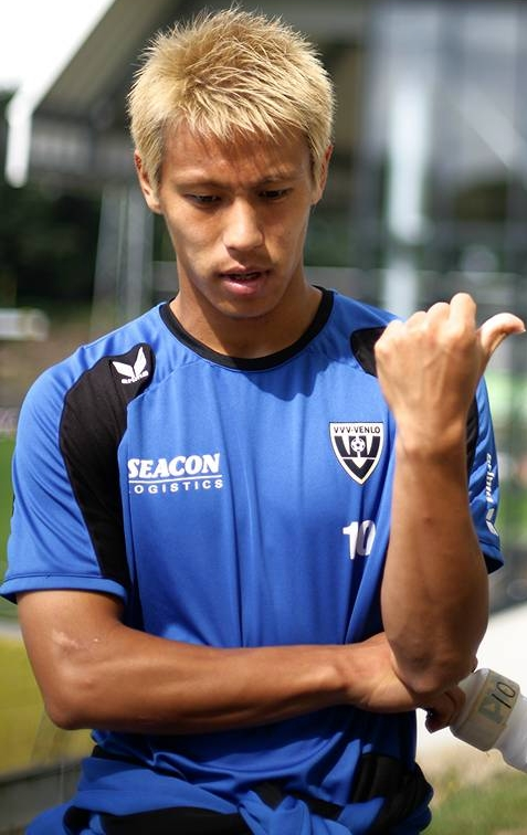 AUGUST 21, 2009 - Football : Keisuke Honda of VVV Venlo during the training session at the De Koel stadium on August 21, 2009 in Venlo, Netherlands. (Photo by Tsutomu Takasu)